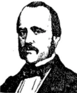 Adolf Wilhelm Edelsvärd (* 1824; † 1919), Swedish architect